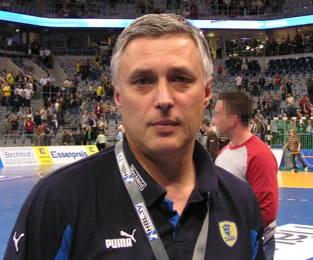 Iouri Chevtsov, coach of SG Kronau/Östringen, on April 18th 2007 in Mannheim, SAP-Arena (Germany)